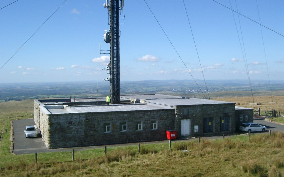 Photograph of transmitter mast and buildings at North Hessary Tor, Dartmoor, Devon, UK. Background panoramic view across Dartmoor. Taken by contributor, September 2002, all rights waived.